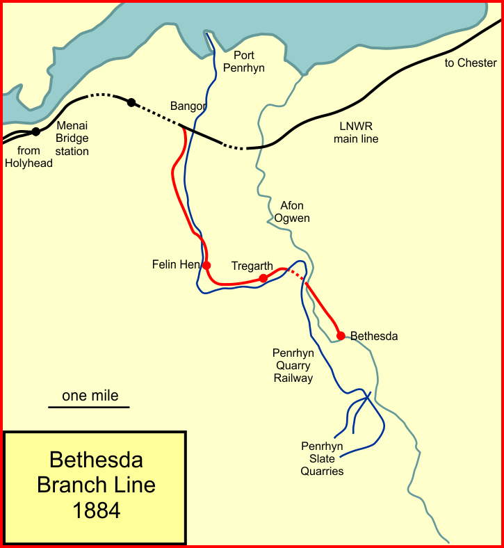 Diagram of the Bethesda branch line railway, in Gwyneddm Wales, on opening in 1884